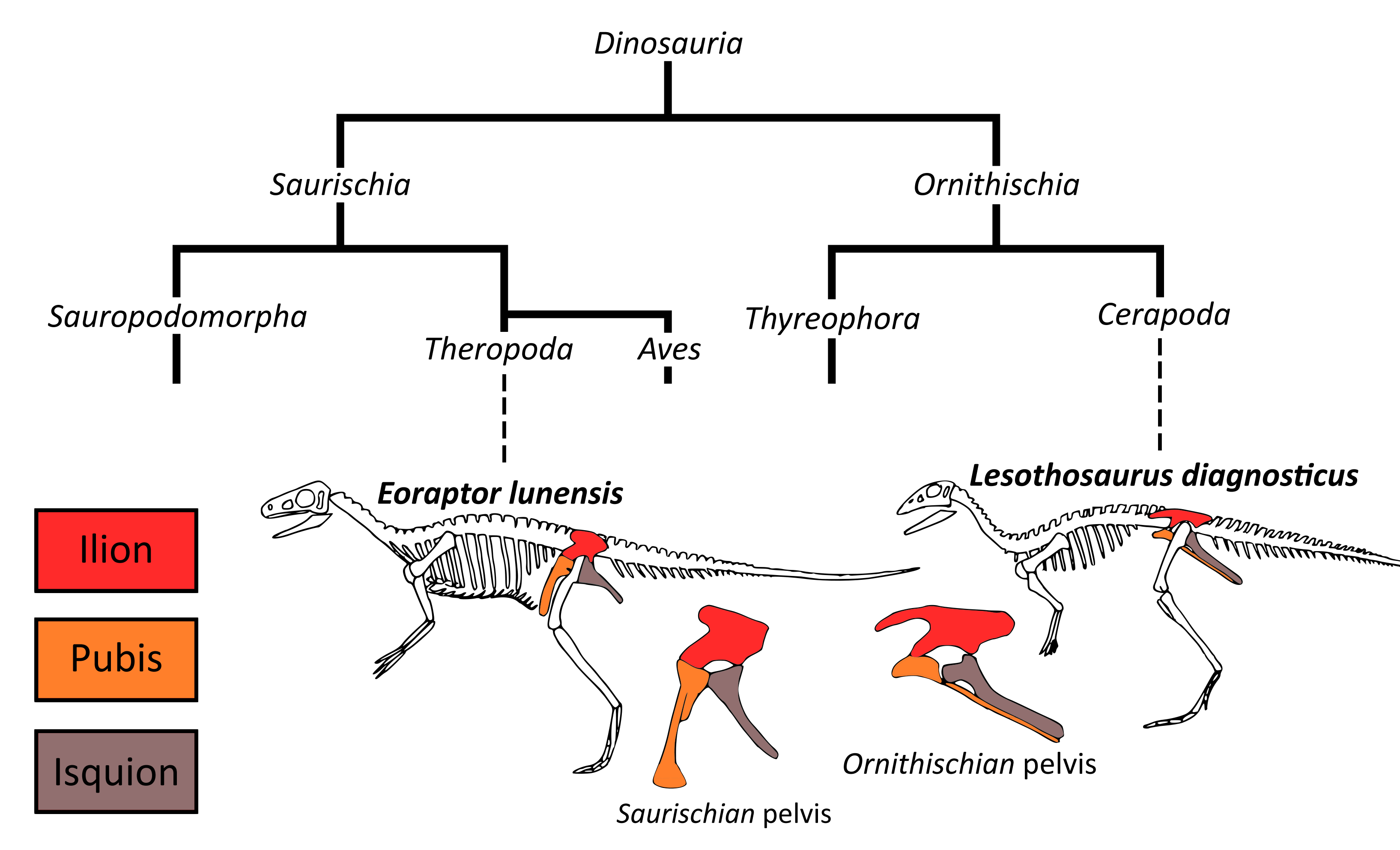 A. Eoraptor, a basal Saurischian, B. Lesothosaurus, a basal Ornithischian, C. Pelvis of a basal Saurischian, D. Pelvis of Lesothosaurus.